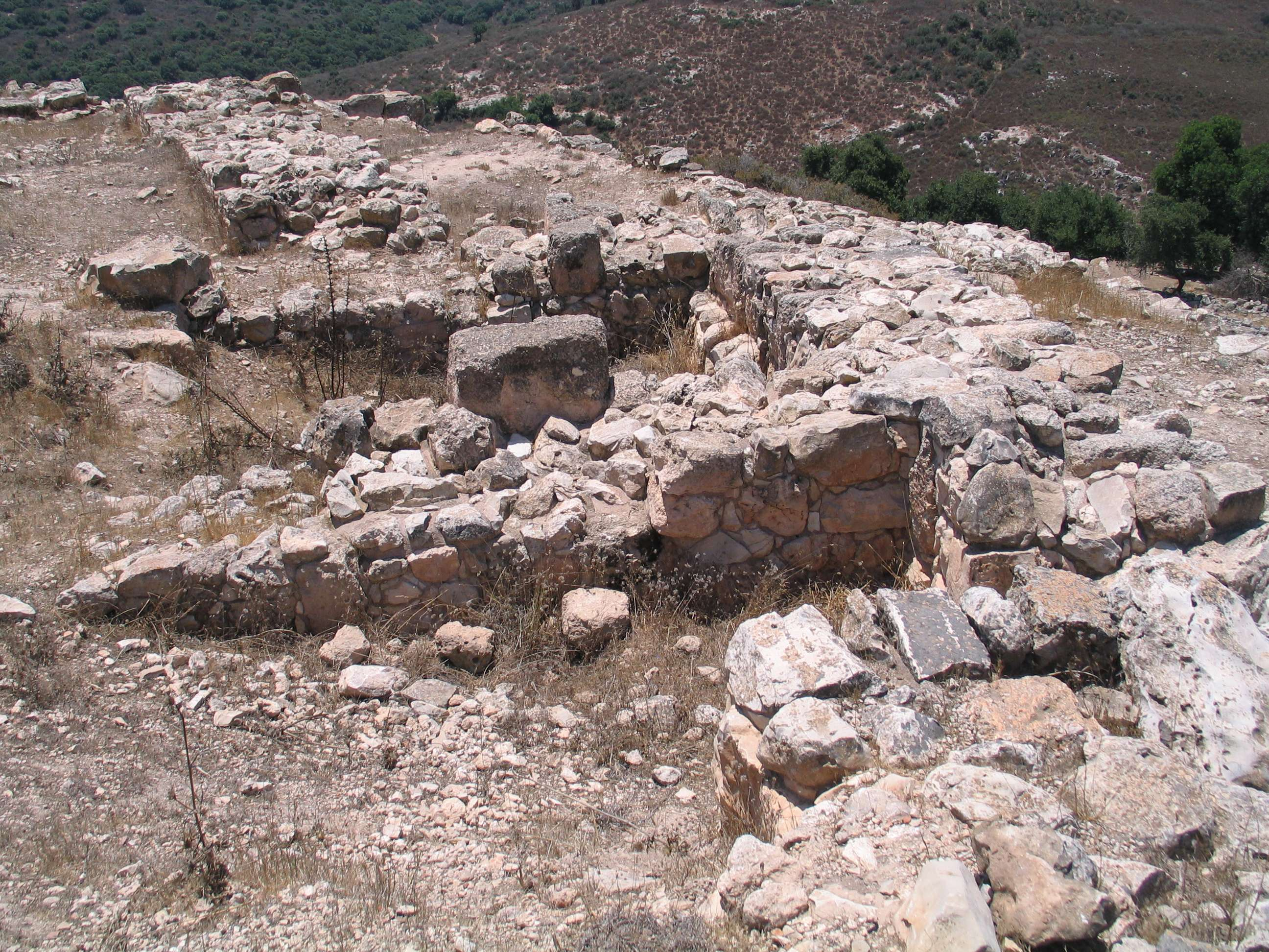 Tel Yodfat, Israel.